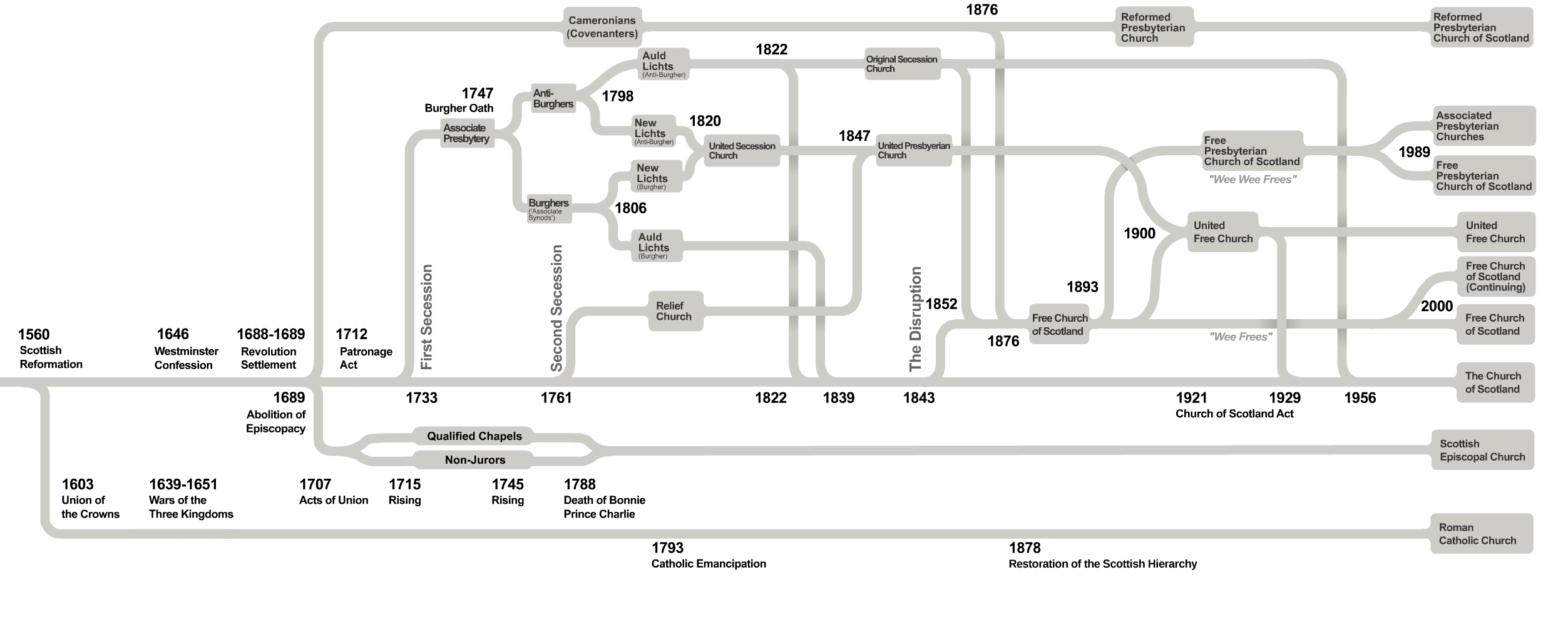 A diagram of the evolution of the Christian churches of Scotland since the Reformation, including: the Church of Scotland the Scottish Episcopal Church the Free Church of Scotland the Free Church of Scotland (Continuing) the United Free Church of Scotland the Free Presbyterian Church of Scotland the Associated Presbyterian Churches the Cameronians the Anti-Burghers Some inspiration drawn from a diagram on and Christians Together in the Highlands & Islands